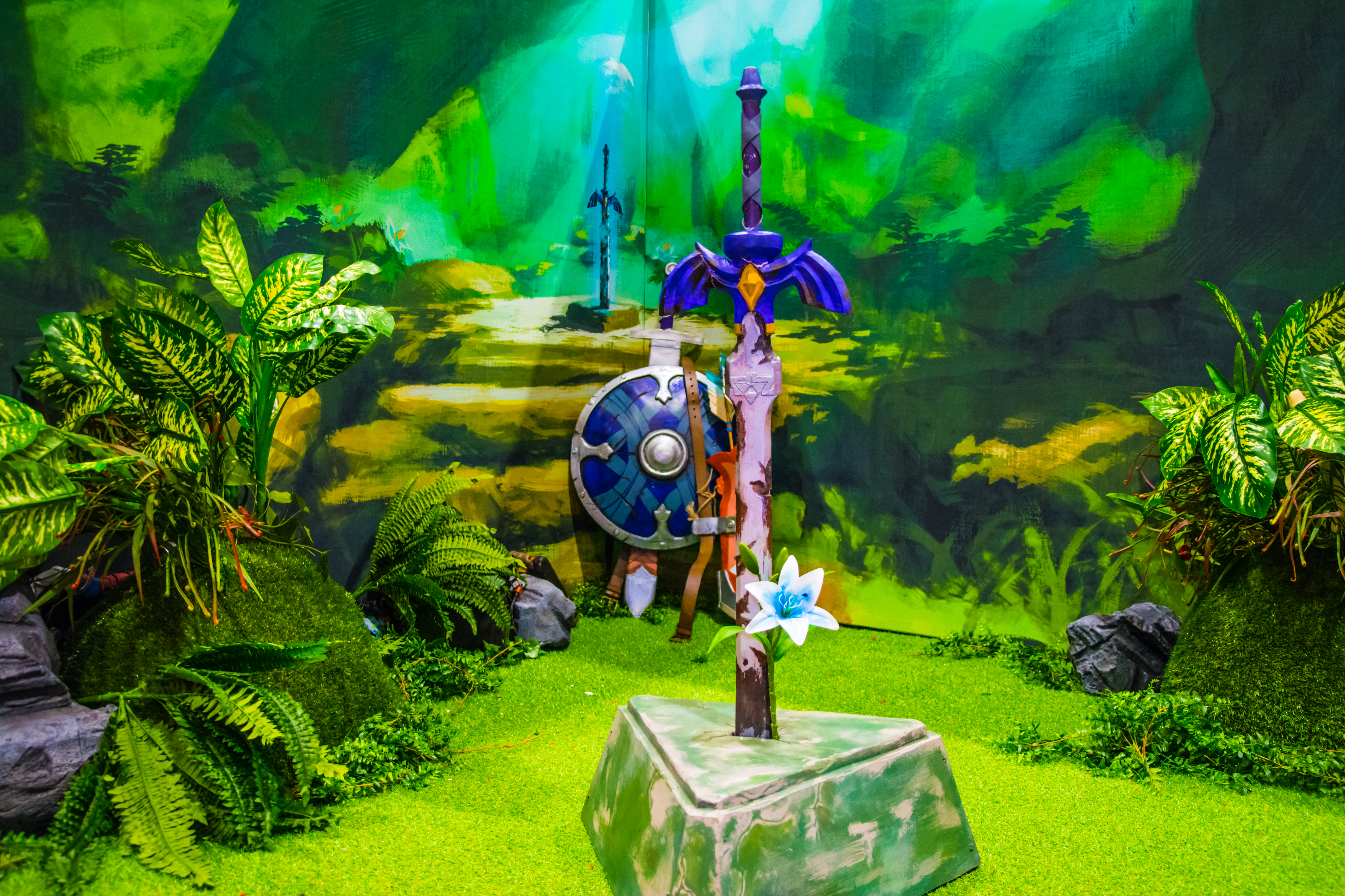 The final day of MCM comic con summer 2017 winded down and I took a more leasurely approach to it all. Sunday is when vendors are usually deflated from a 3 day stint and customers usually know what they want, so it's my favourite day as it's easier to talk to the vendors as they stop being in "sell" mode, and come back down to "human" levels.